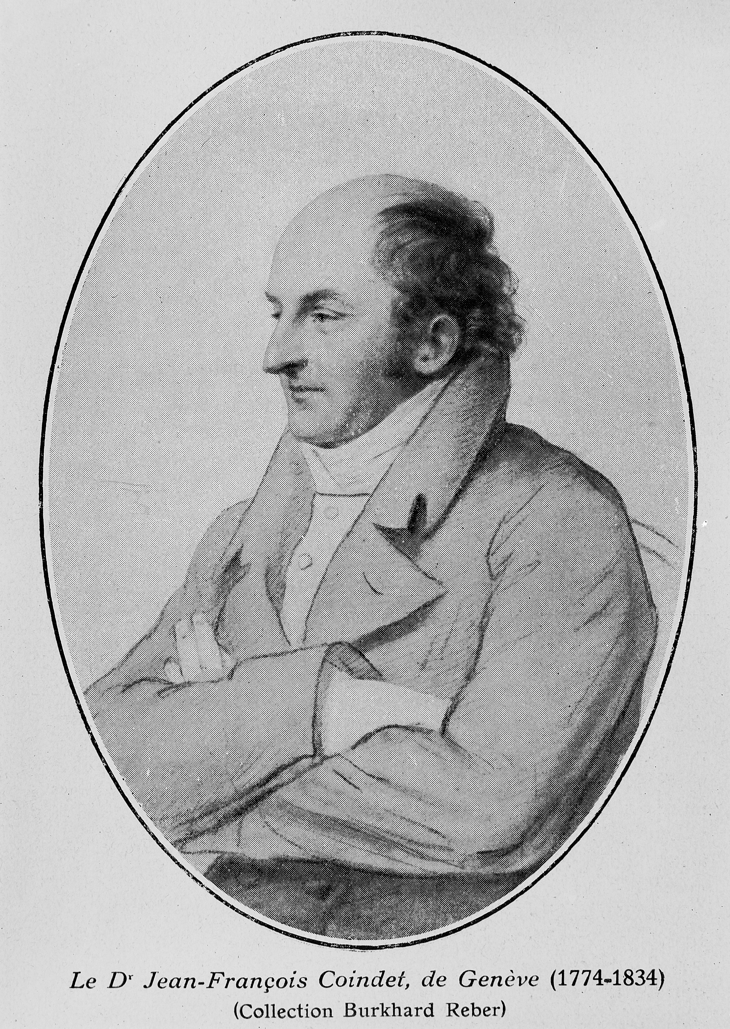 Portrait of Dr. Jean-Francois Coindet General Collections Keywords: Jean-Francois, de Geneve Coindet